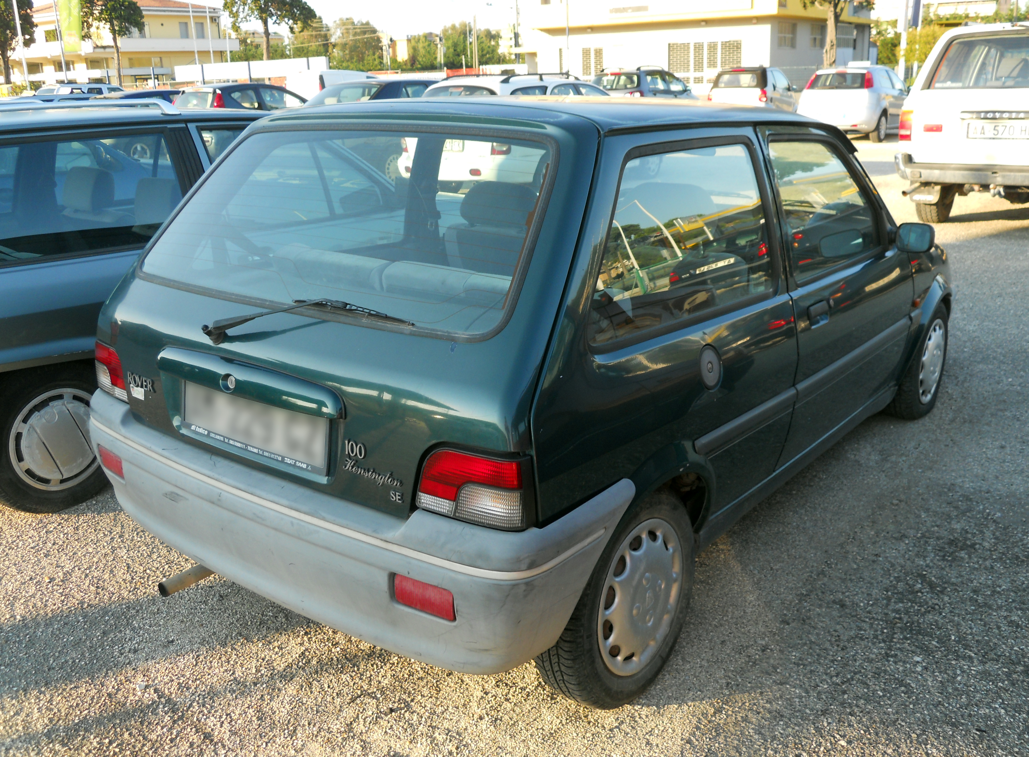 A Rover 100 Kensington SE in Giulianova, Italy. Registred in November 1996 in Abruzzo; it uses a 1119 cm³, 44 kW, Euro 2 petrol engine.